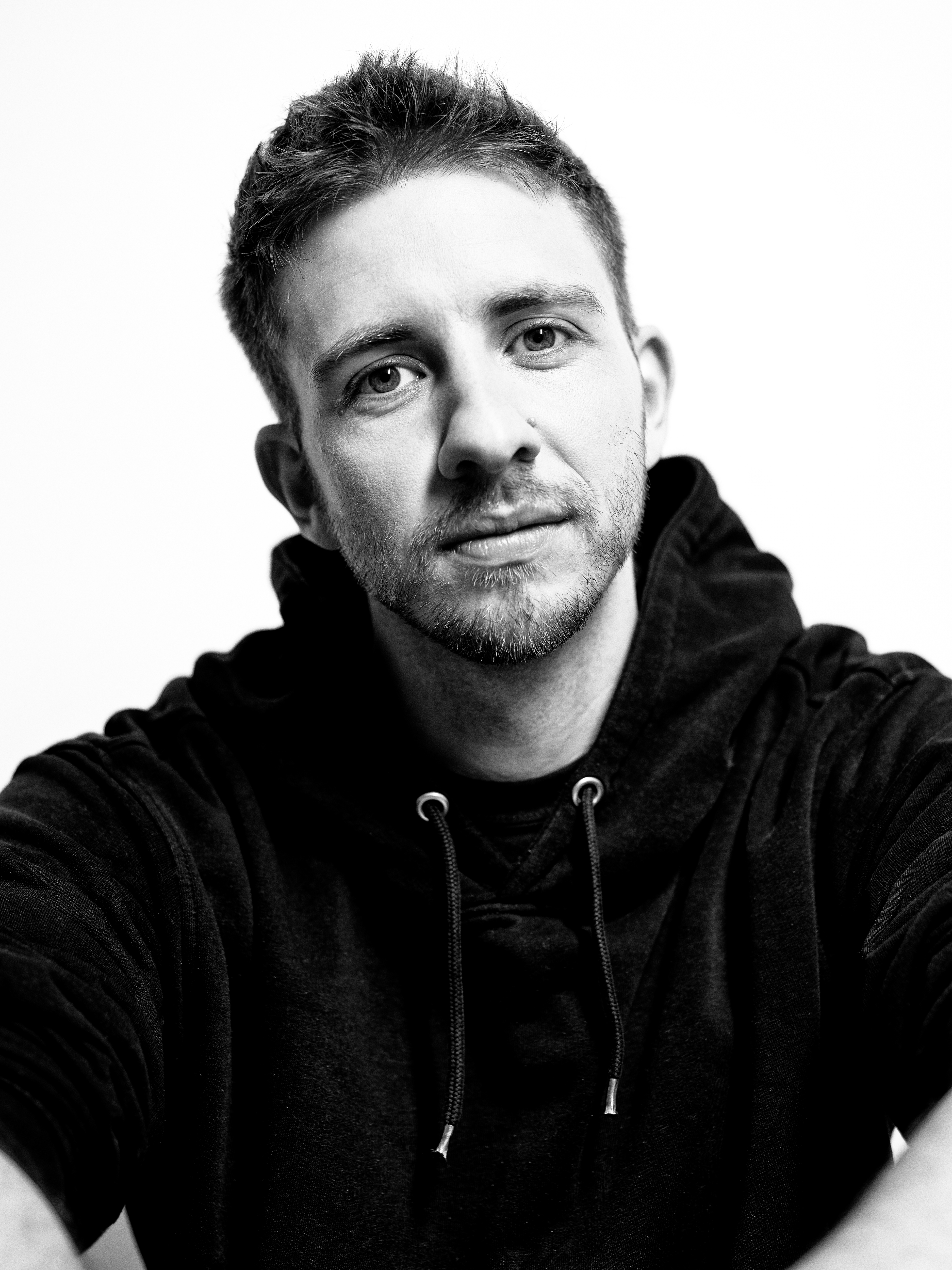 Portrait of Gregor Schmidinger, Film Director and Screenwriter